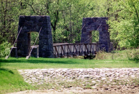 Footbridge over Middle River